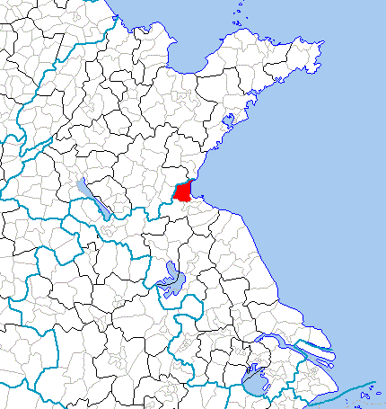 Gan-Yu County in East China